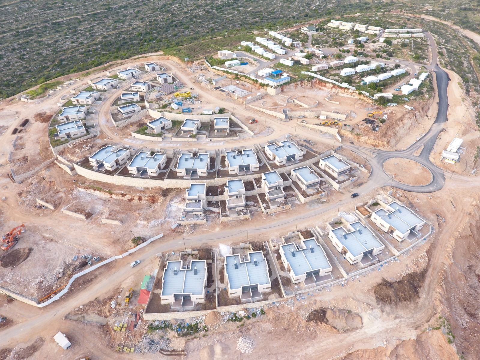 Kerem Reeim Mate Binyamin